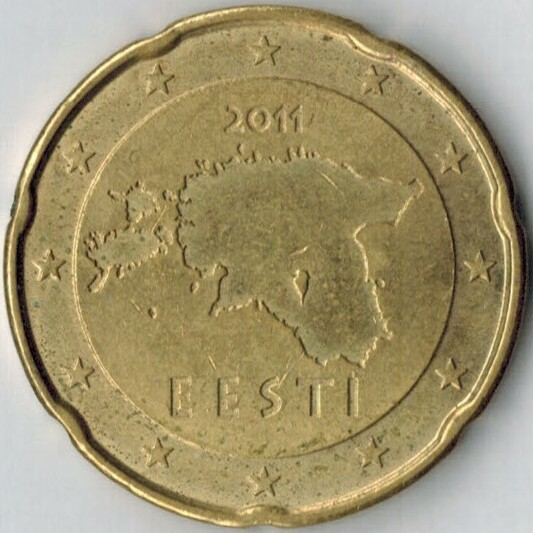 The Estonian 20 euro cent coin